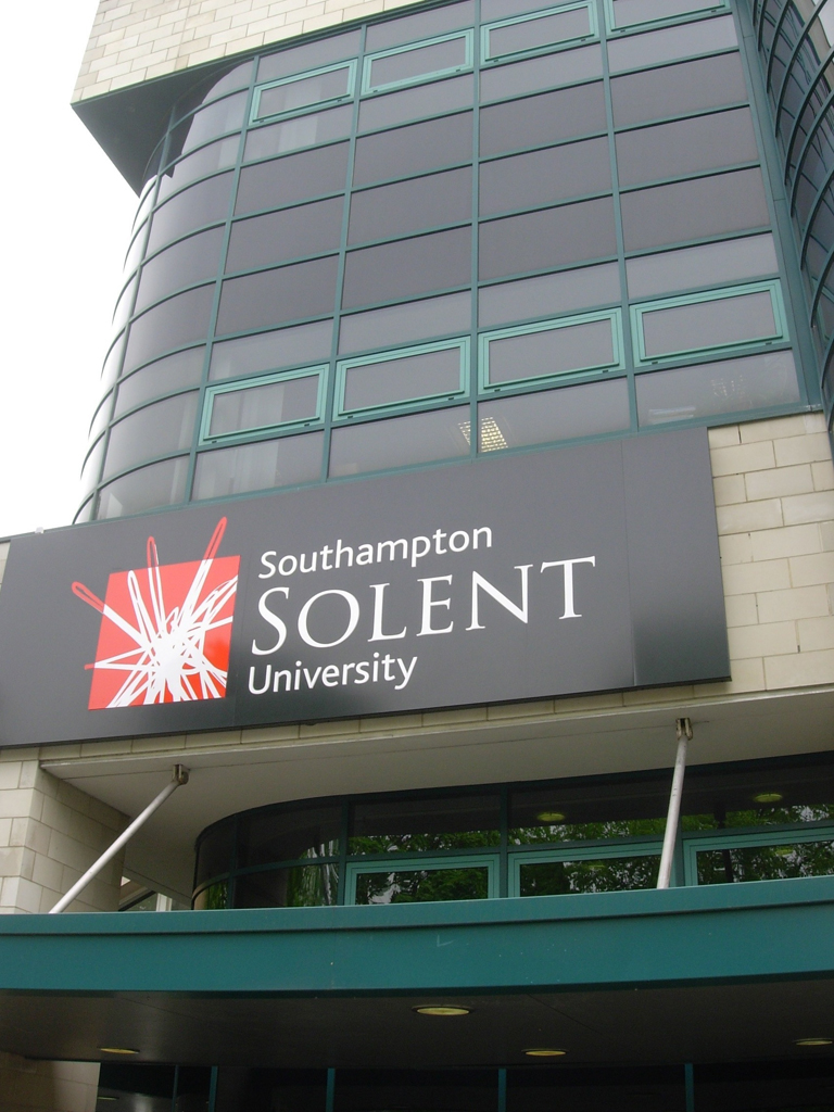 Entrance of Southampton Solent University in Southampton, Hampshire, United Kingdom